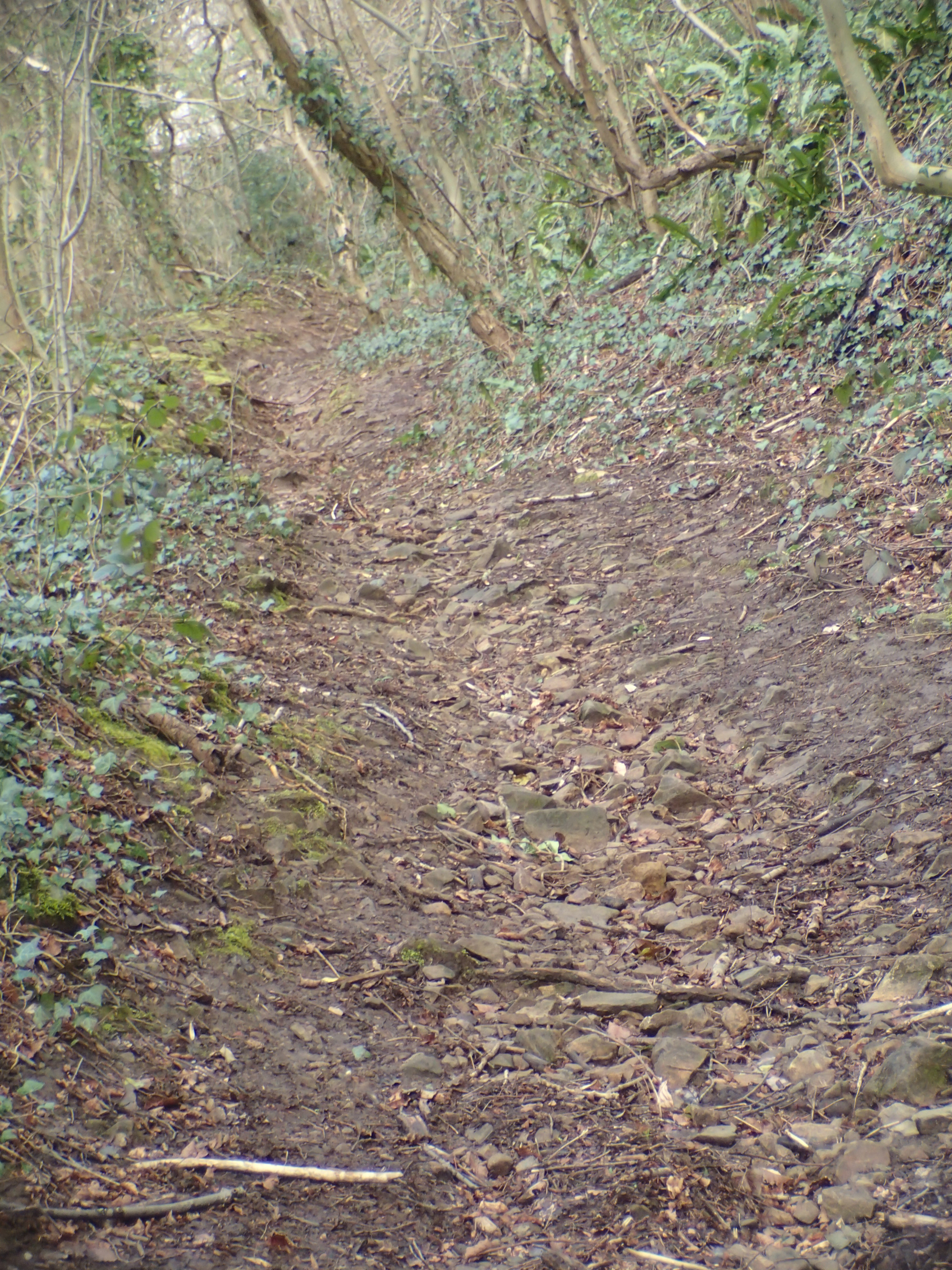 Part of Abersychan Limestone Railway. Now a footpath.